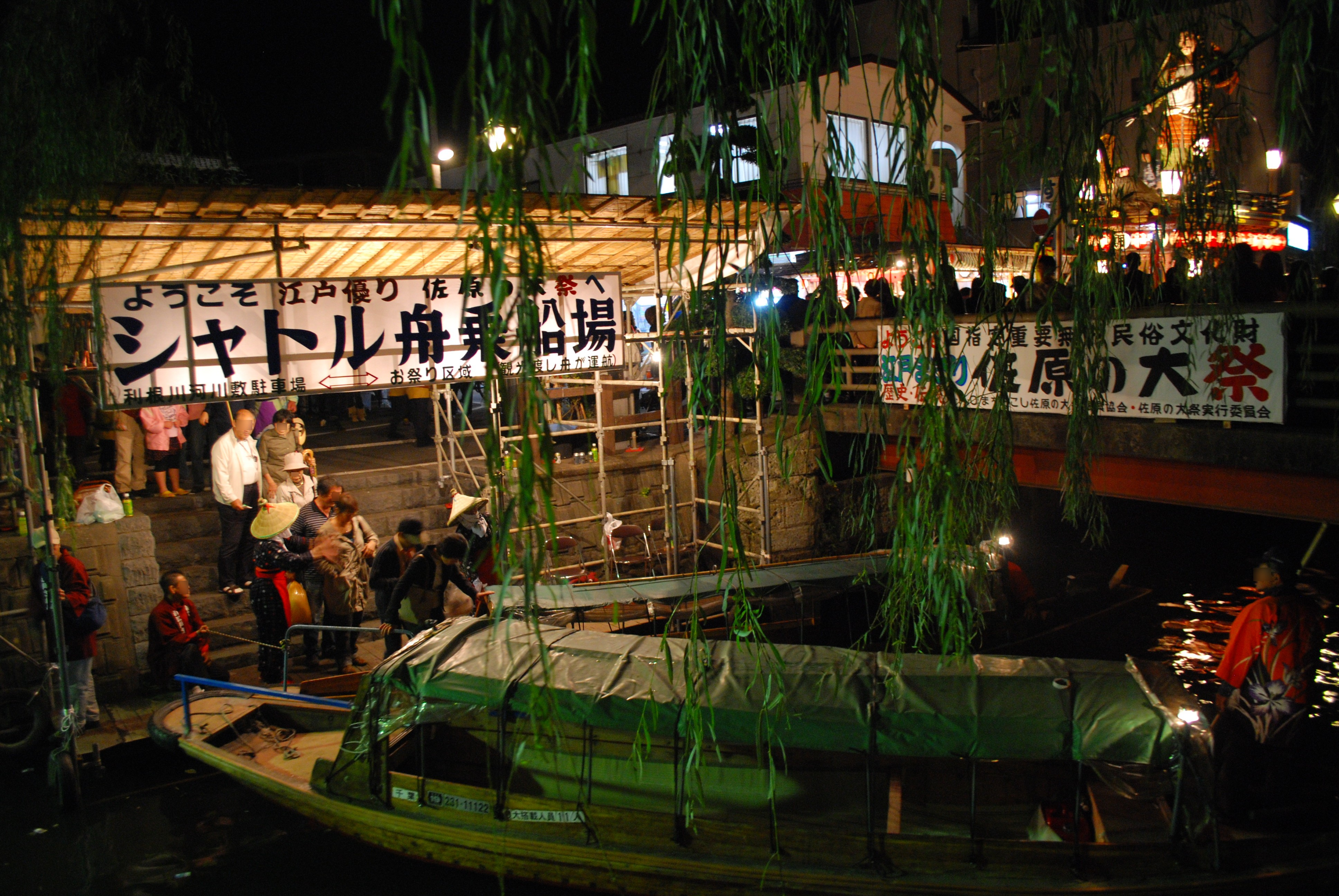 Sawara Festival,Onogawa-river park and ride,Katori-city,Japan